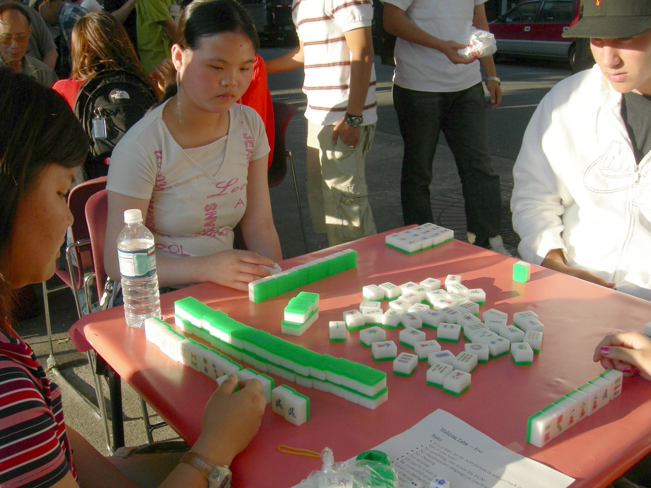 Playing mahjong at Seattle's Chinatown-International District Night Market, Hing Hay Park, International District, Seattle, Washington.